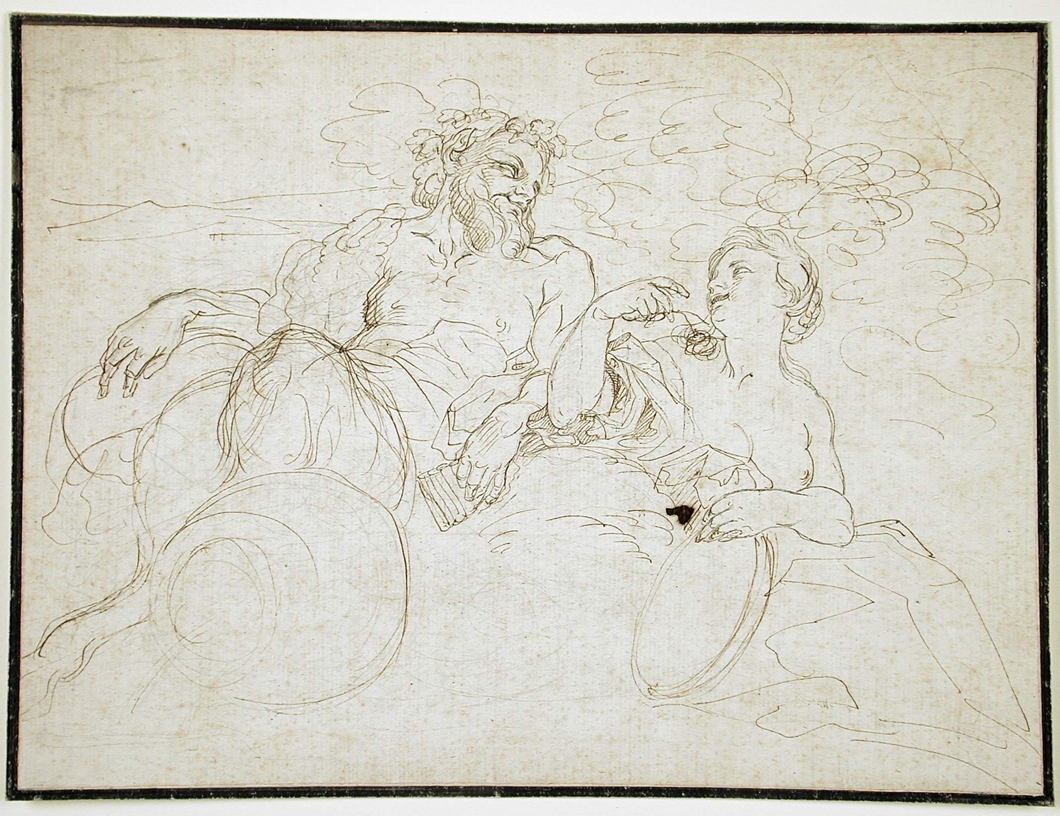 Italy, 17th-18th century Drawings Brown ink Los Angeles County Fund (54.12.5) Prints and Drawings Currently on public view: Ahmanson Building, floor 3